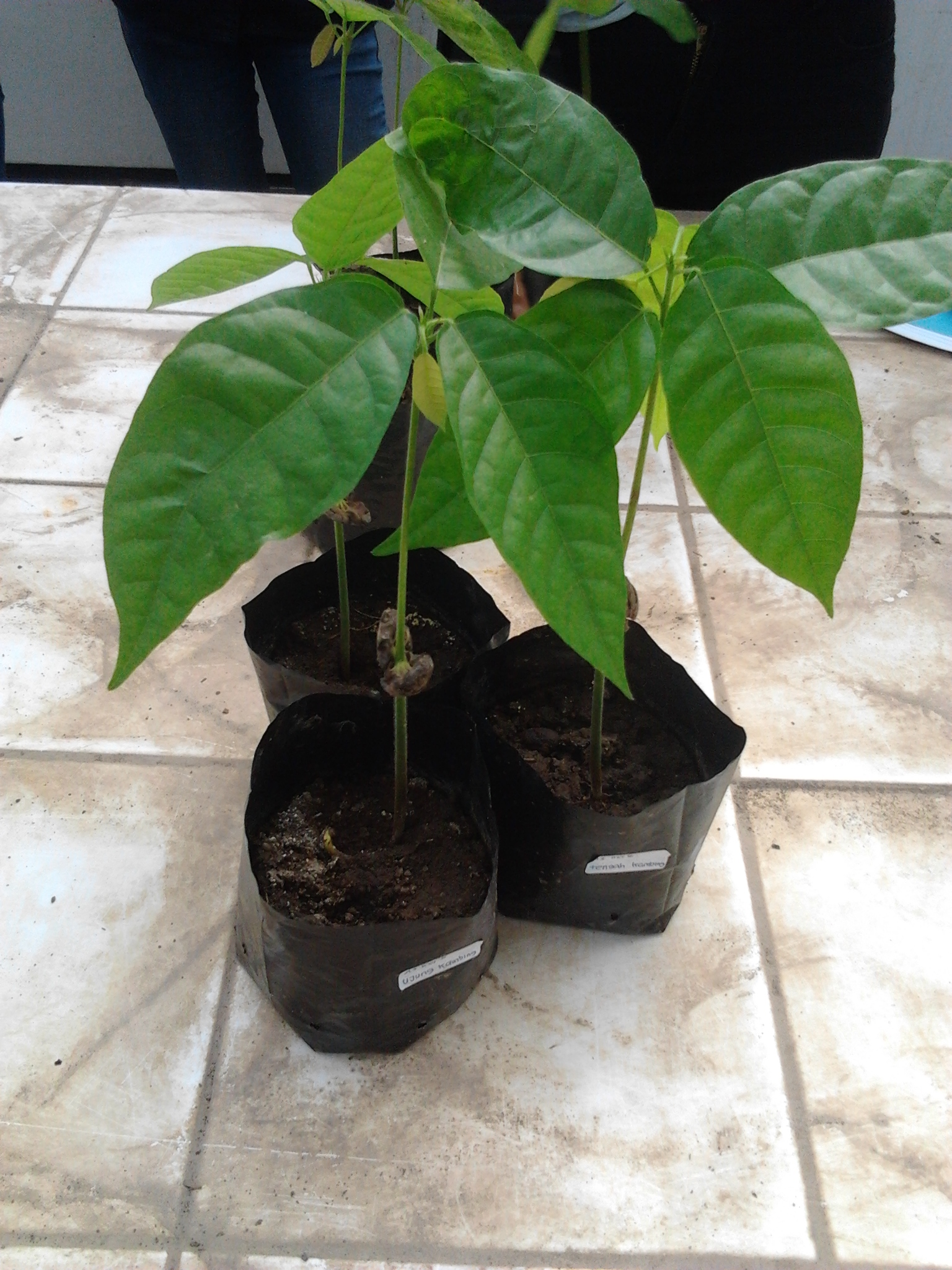 cocoa seedling